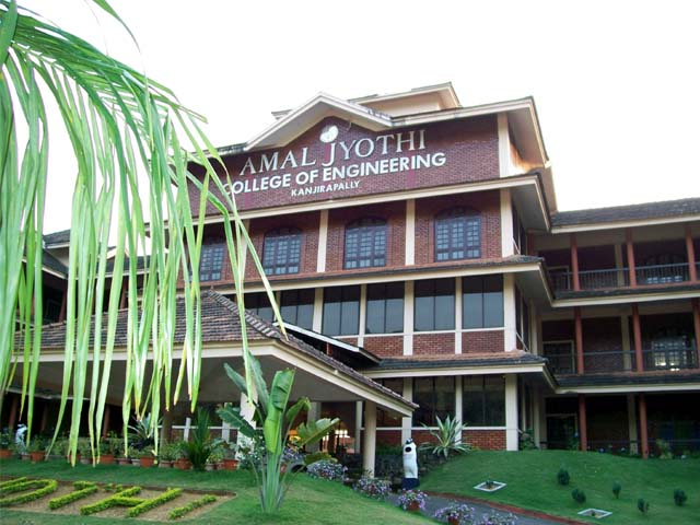 Main complex of Amal Jyothi College of Engineering.